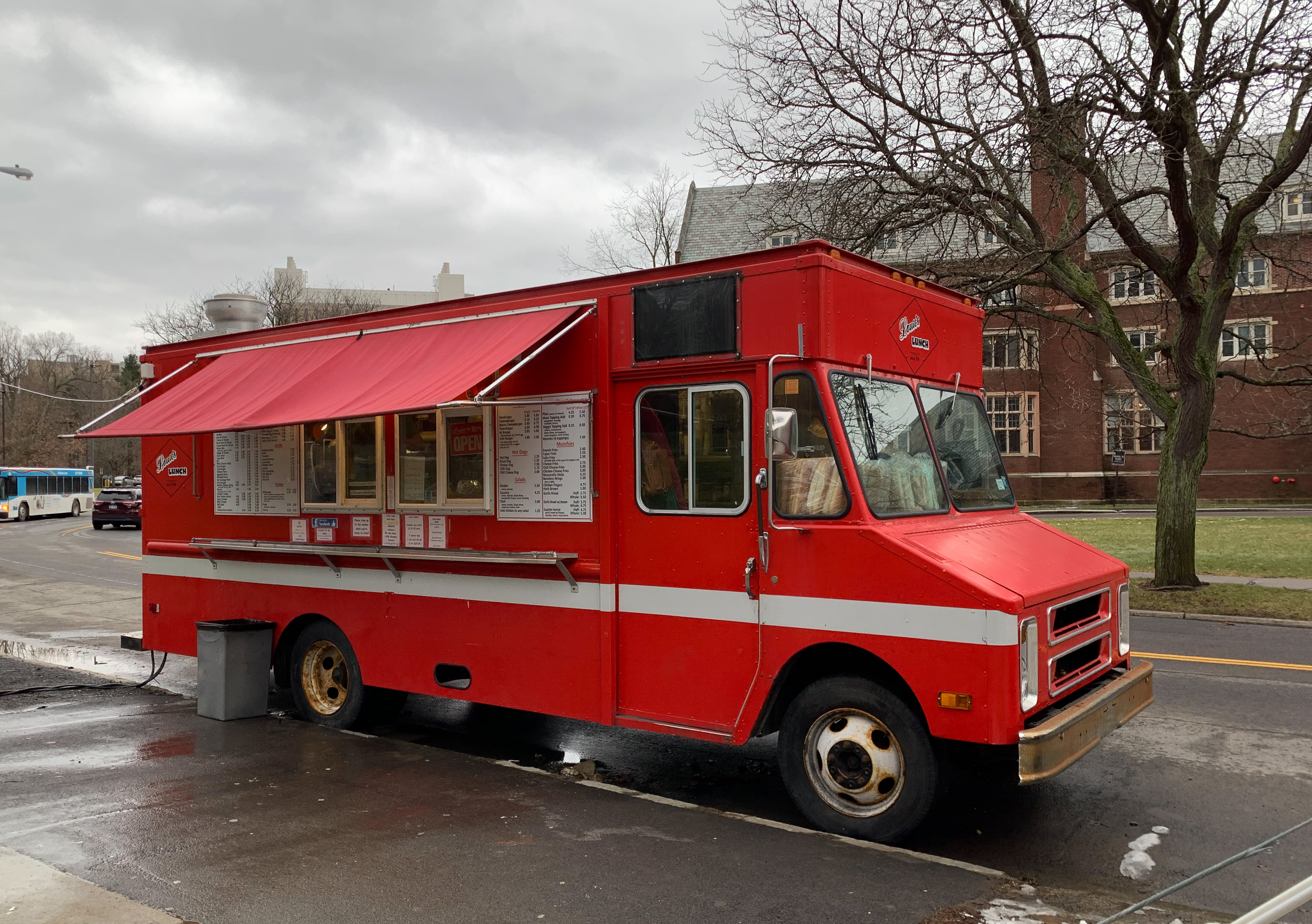 Louie's Lunch, parked on Thurston Avenue in front of Risley.